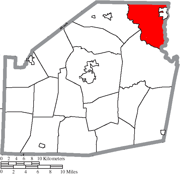 Map of the municipal and township boundaries of Highland County, Ohio, United States, as of the 2000 census, with the location of Madison Township highlighted. Township borders are shown only in unincorporated areas in order to differentiate incorporated and unincorporated areas more clearly.